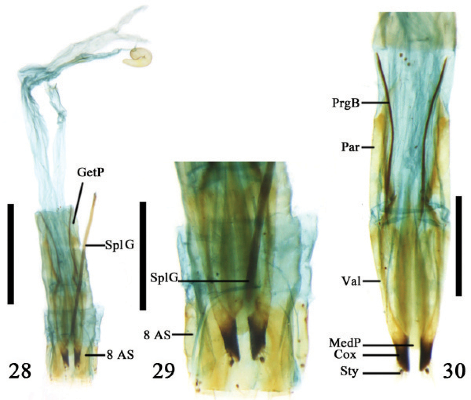 Figures 28–30; Ovipositor and 8th abdominal segment of Orsodacne cerasi (Linnaeus) 28–29 ventral view 30 dorsal view; Abbreviations: coxite (Cox); genital pocket (GetP); median plate (MedP); paraproct (Par); baculus of proctiger (PrgB); spiculum gastrale (SplG); stylus (Sty); valvifer (Val); 8th abdominal segment (8 AS); scale line =0.5mm.